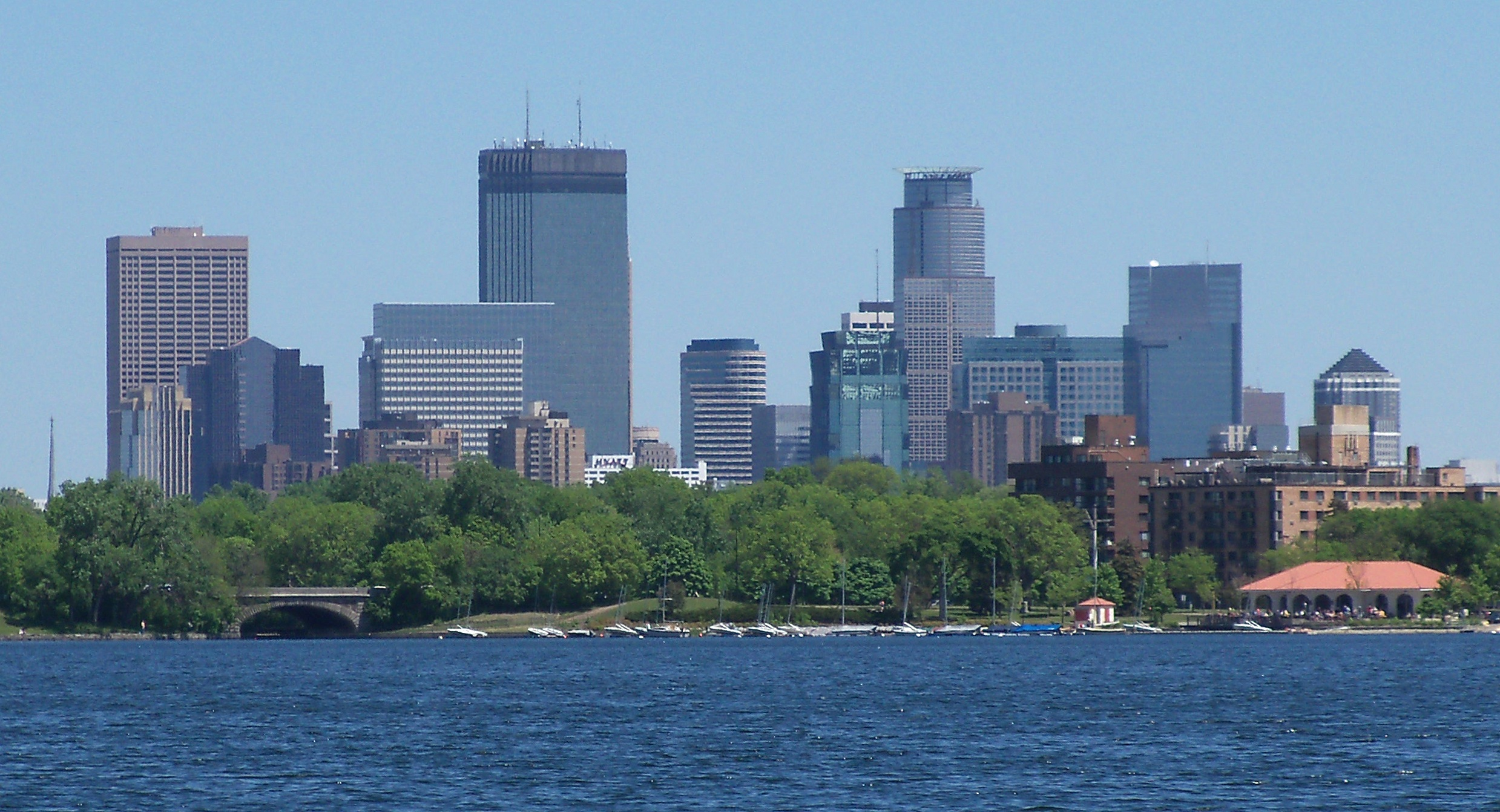 Downtown Minneapolis, Minnesota, USA behind Lake Calhoun.